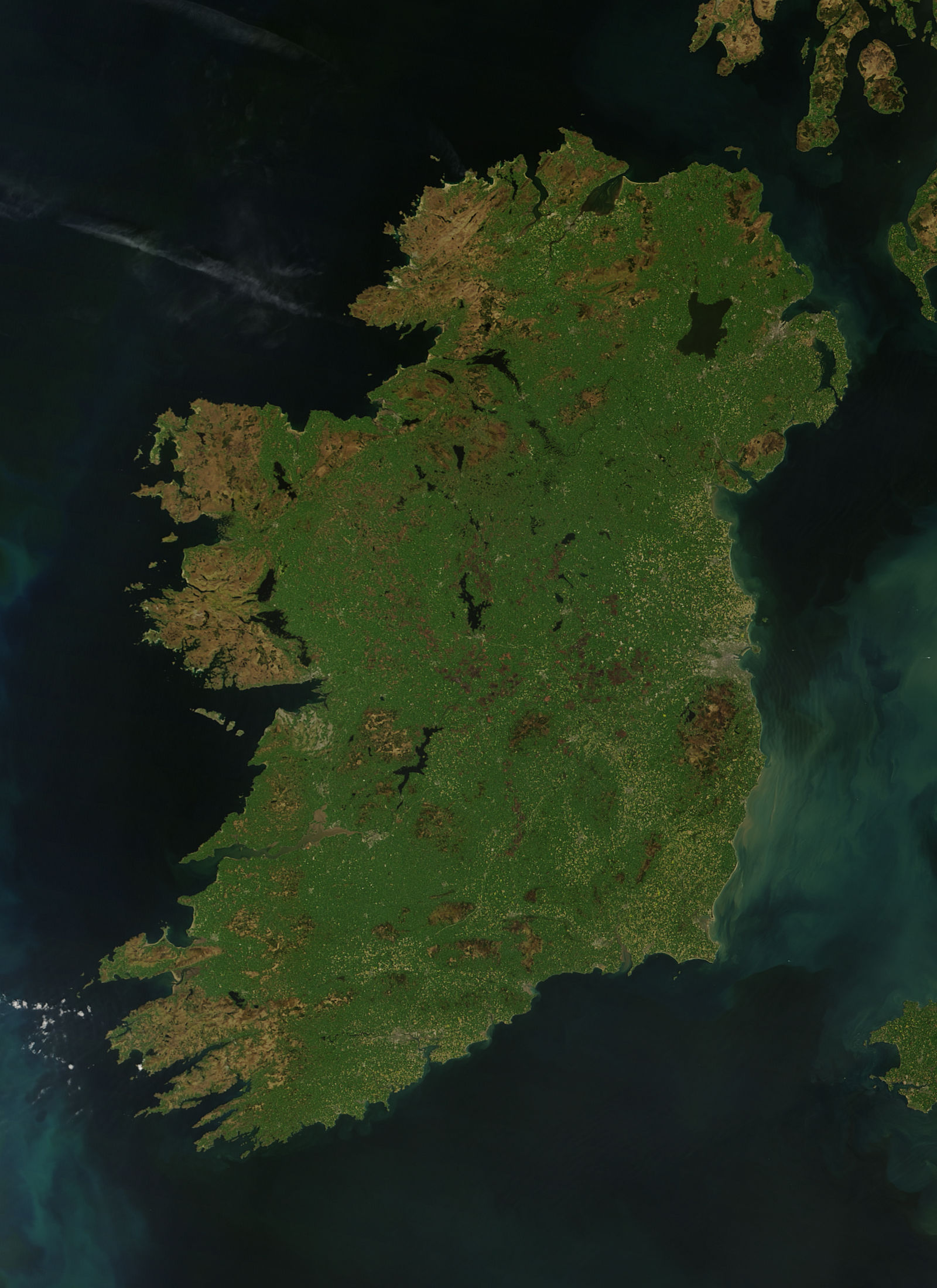 NASA Terra satellite image of Ireland. Image taken May 2, 2007.